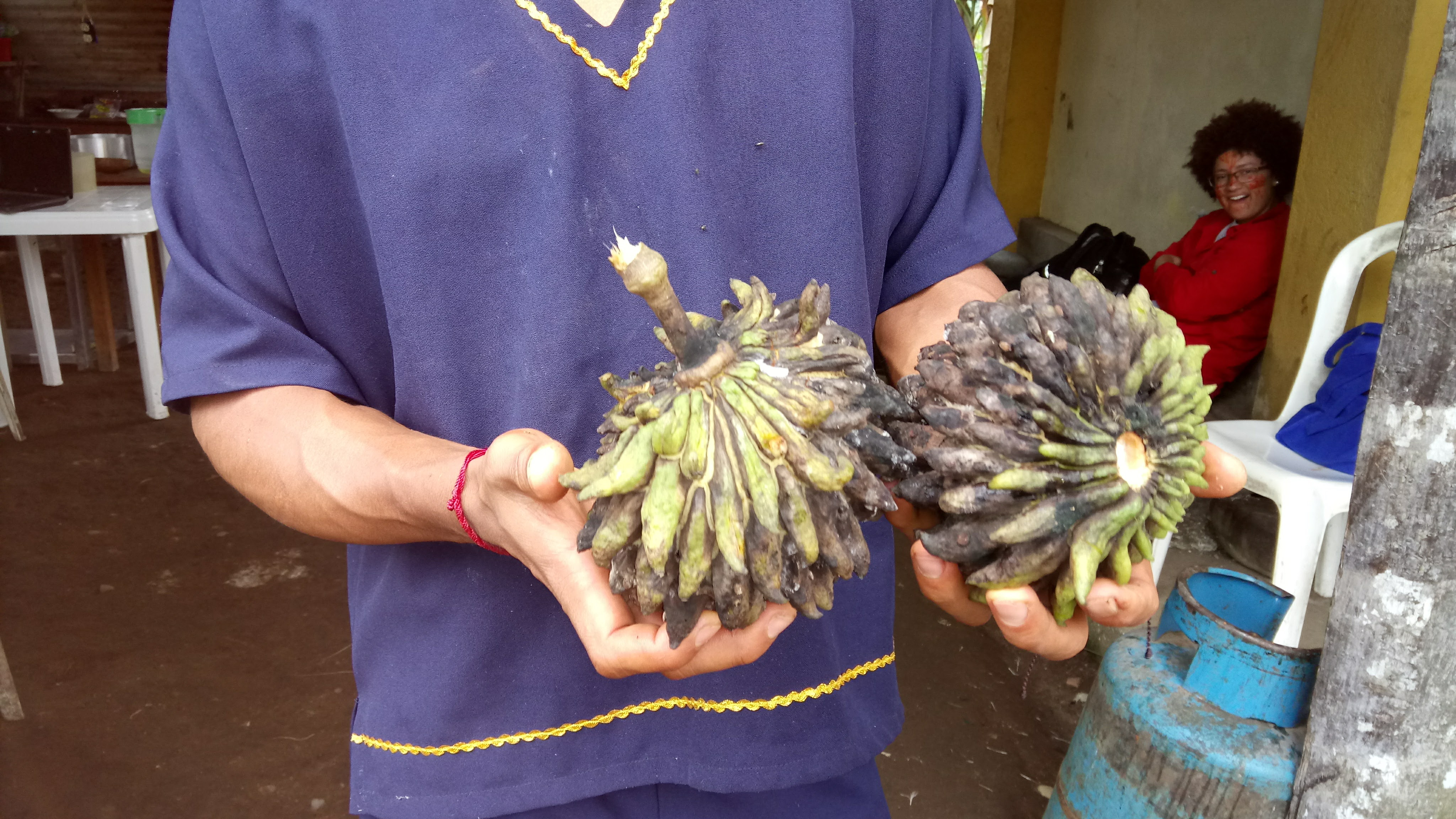 La fruta que más disfrutan los quijos son las ananas, una especie de chirimoyas gigantes.